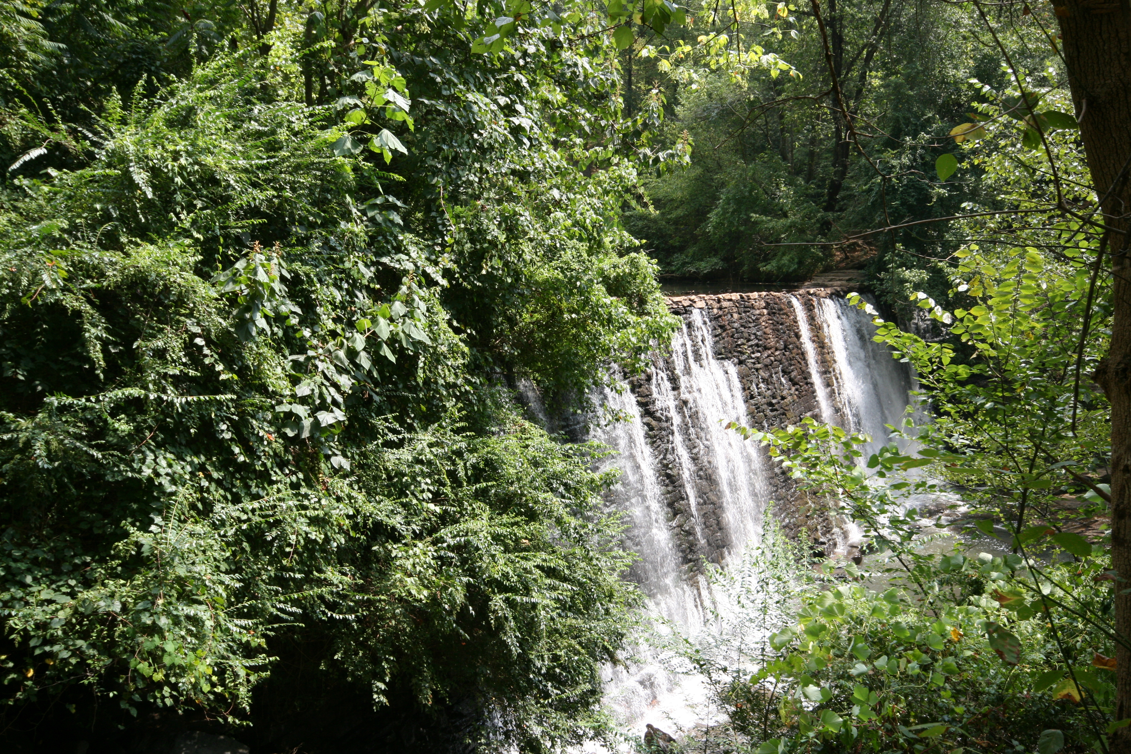 The fall at the Roswell Mill